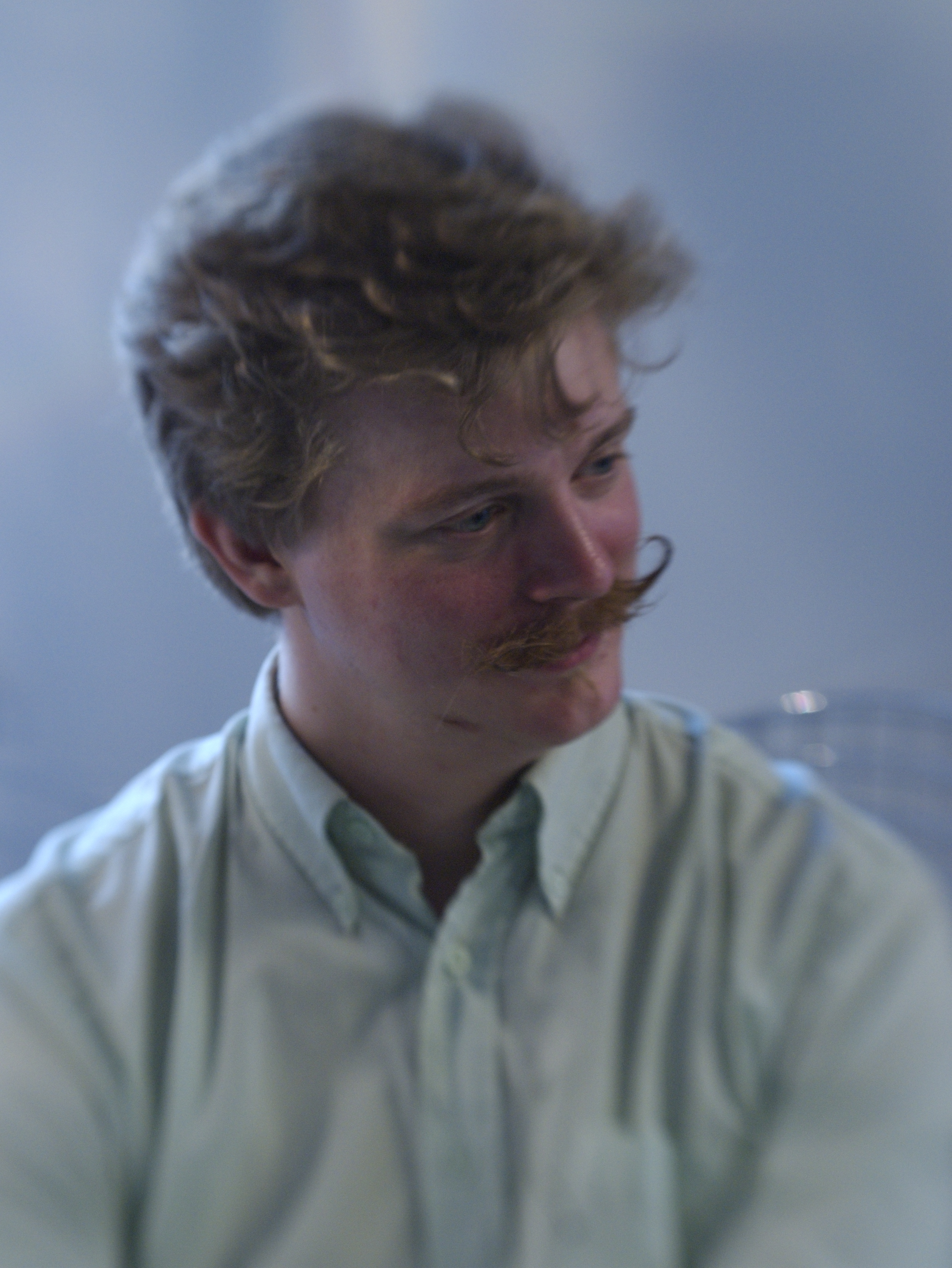 Tuomas visiting on the day after the housewarming party. April 2007.